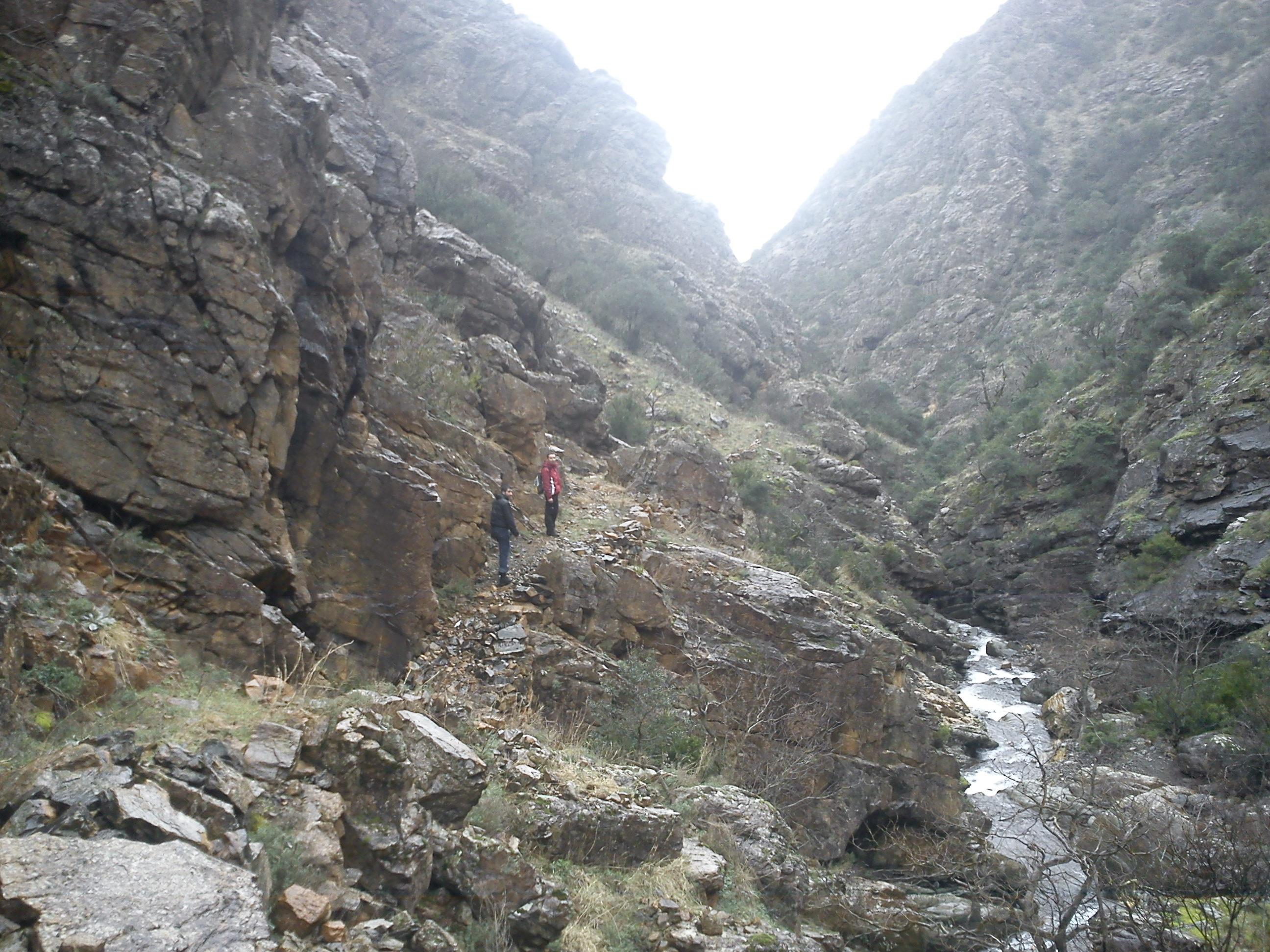 This is a photography of Natura 2000 protected area with ID GR1440003